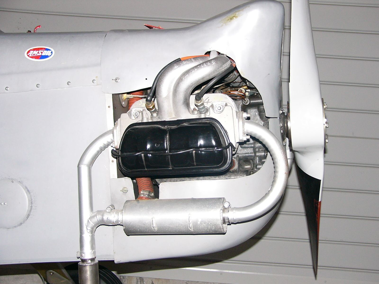 A Volkswagen engine mounted in a Volksplane